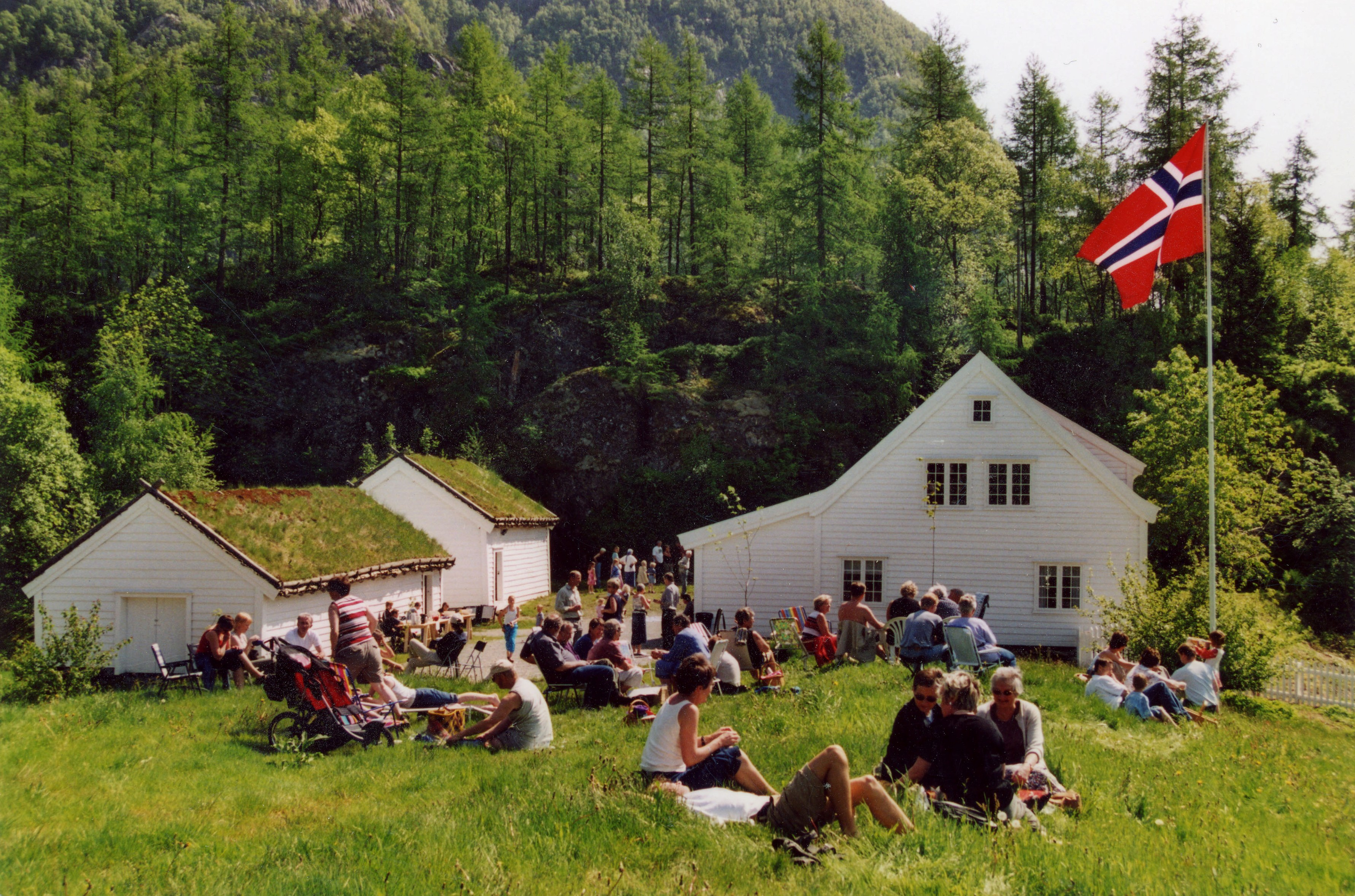 People gathering outside Ryfylkemuseet, which is flying the Norwegian flag.